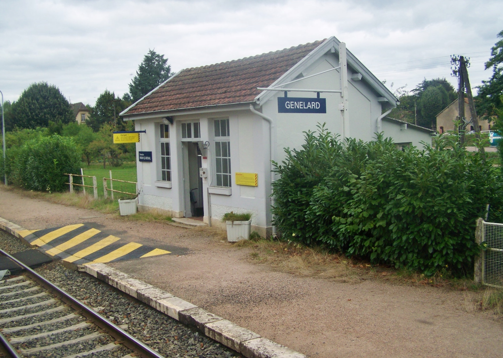 Sight of a part of the Génelard railway station, in Saône-et-Loire, France.